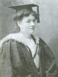 Eibhlín Nic Niocaill, Gaelic League activist, at her graduation from the Royal University of Ireland in 1906.